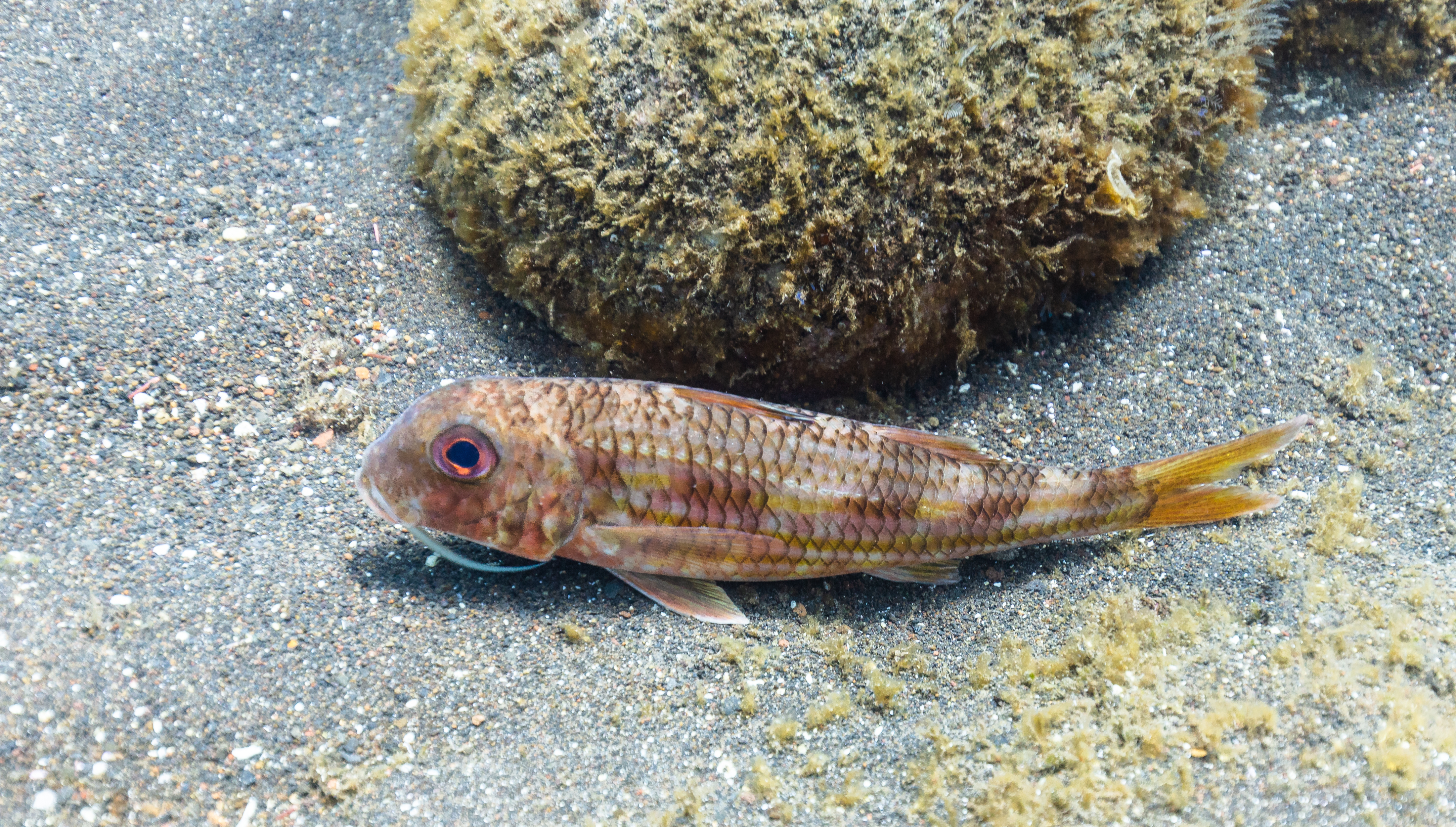 Striped red mullet (Mullus surmuletus), Madeira, Portugal